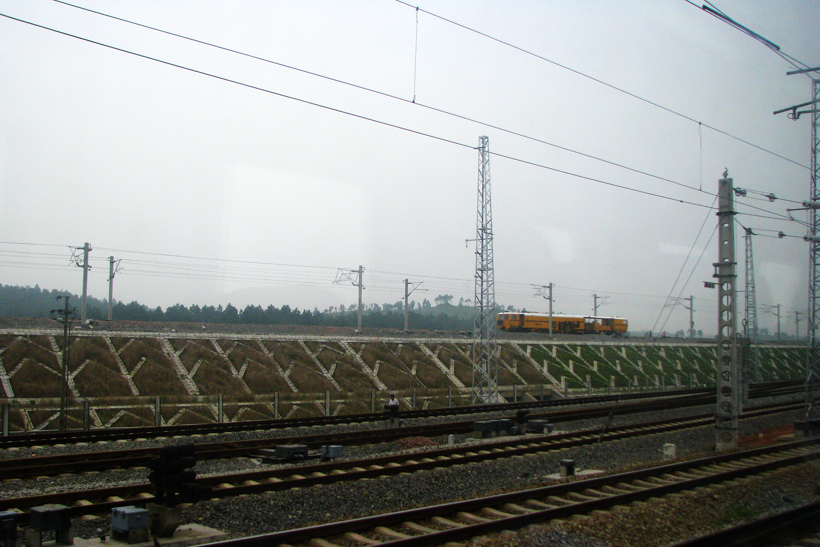 Changjiu Intercity Railway in Jiangxi, China. A high-speed railway links Nanchang and Jiujiang.